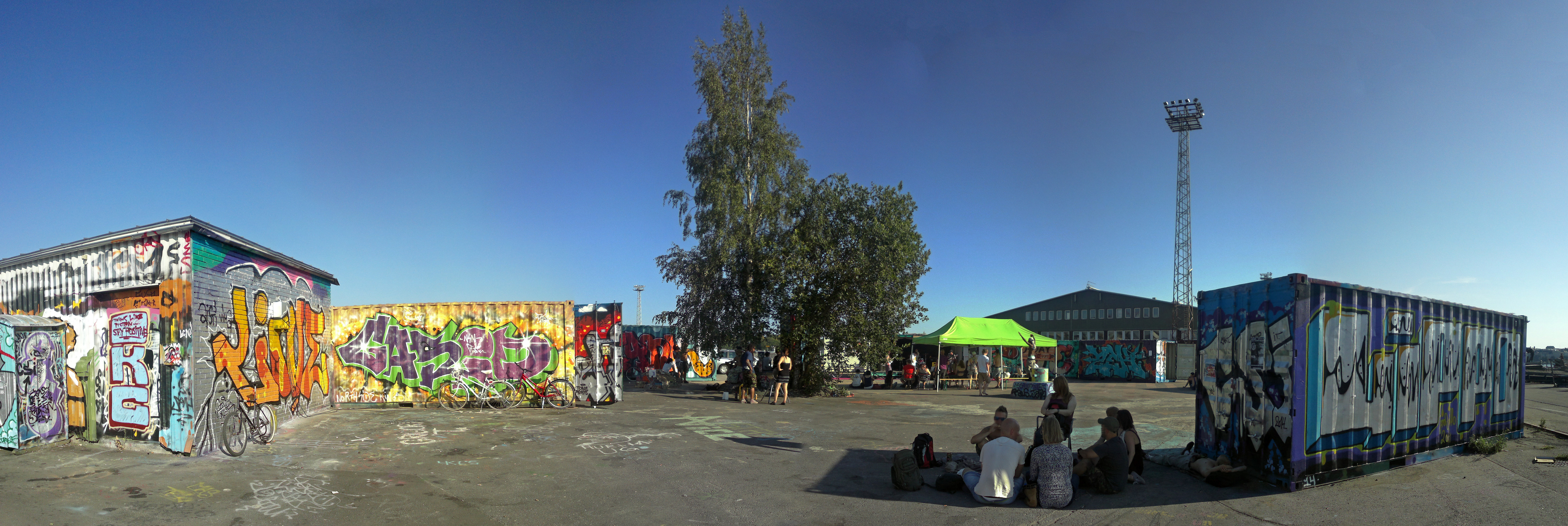 Kalasataman konttiaukio, located in Helsinki citys Sompasaari-region, is a public place for different cultural events.